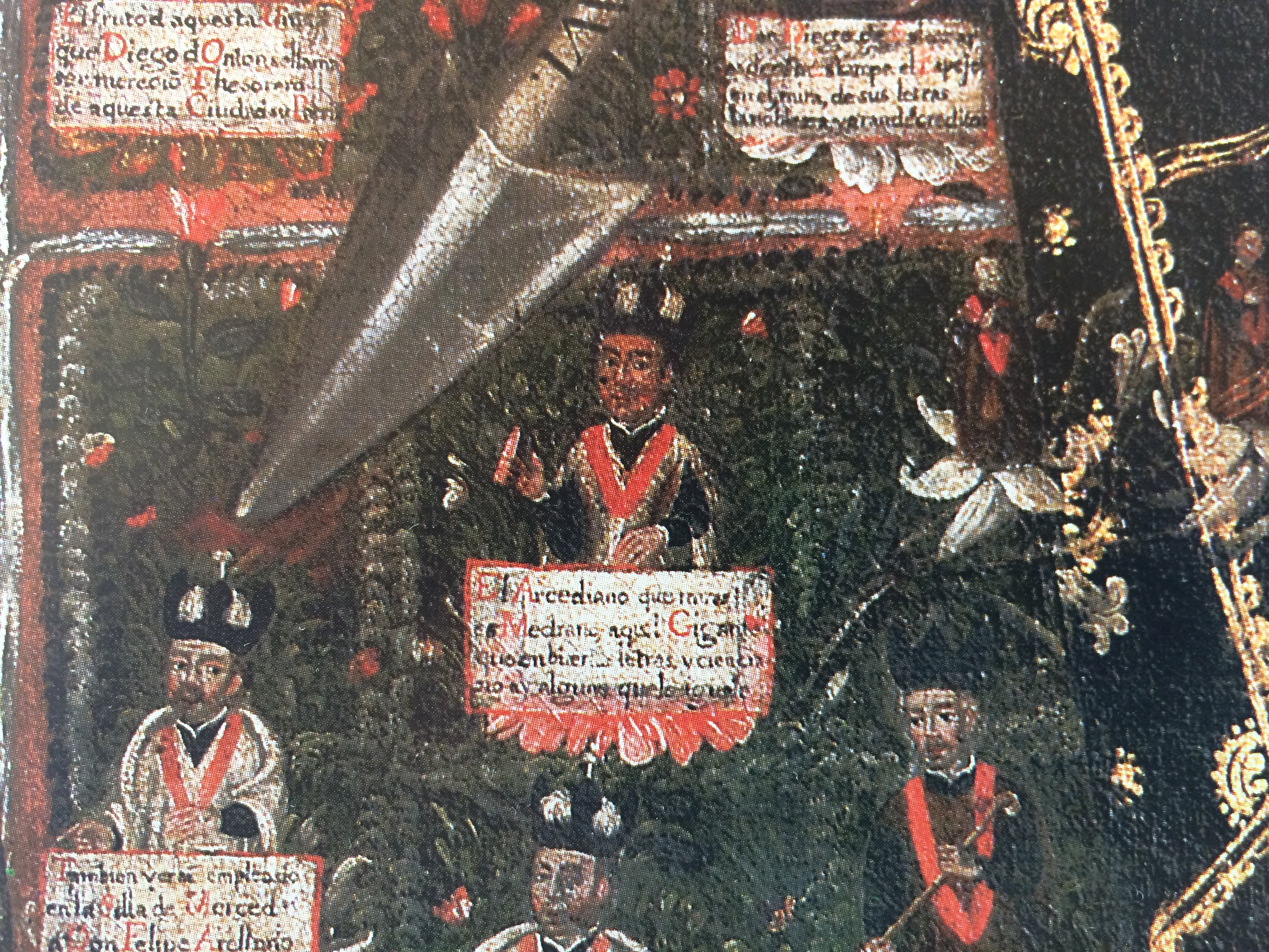 Miniatura de Juan de Espinosa Medrano, fotografía de Milton André Ramos Chacón